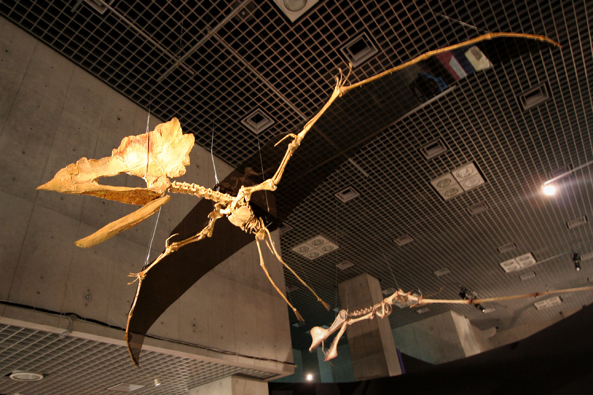 Reconstructed Thalassodromeus sethi skeleton (the postcranium is hypothetical) with Anhanguera behind, National Museum of Nature and Science, Tokyo.